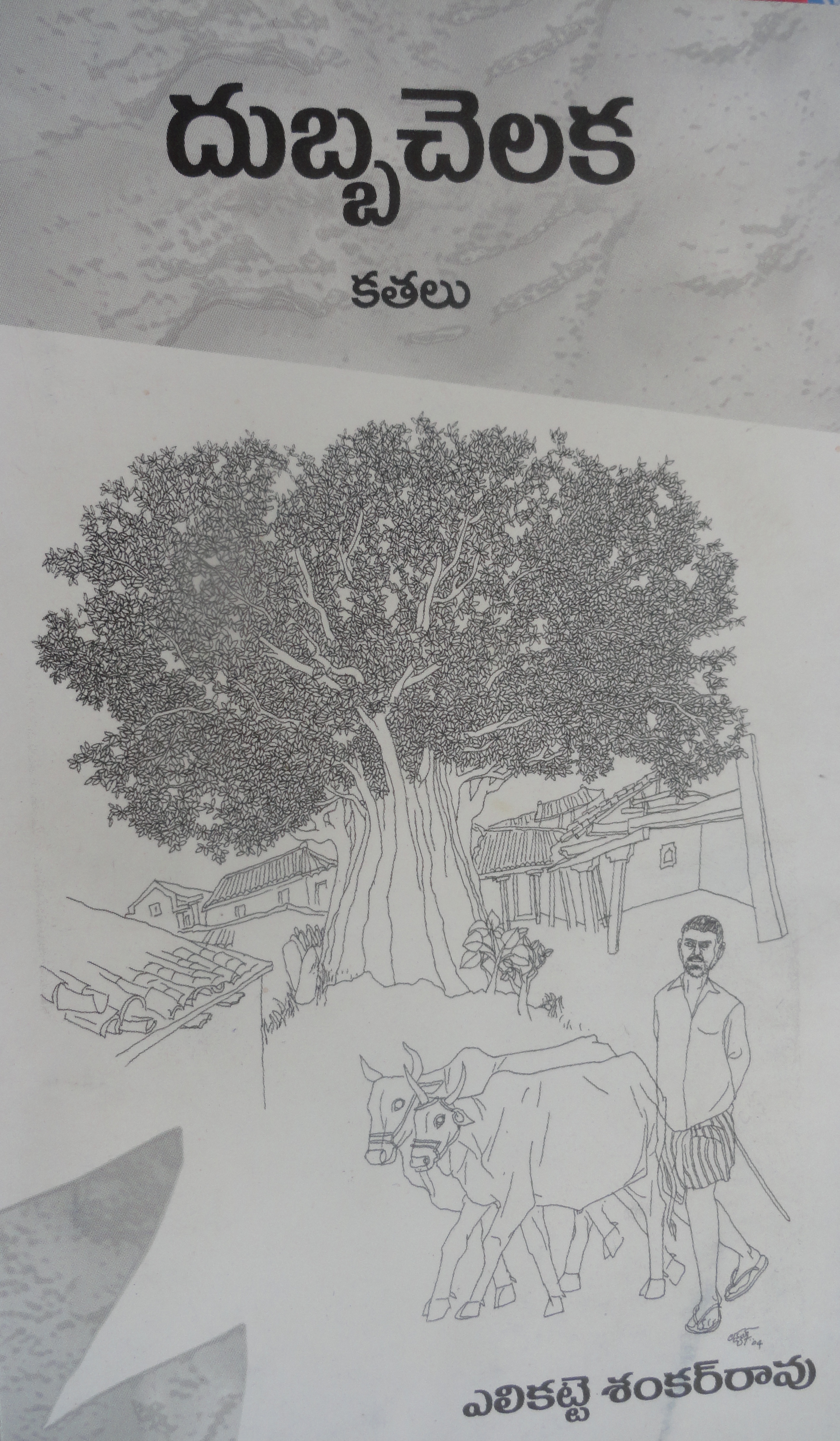 Puttu maccala saastramu/ book